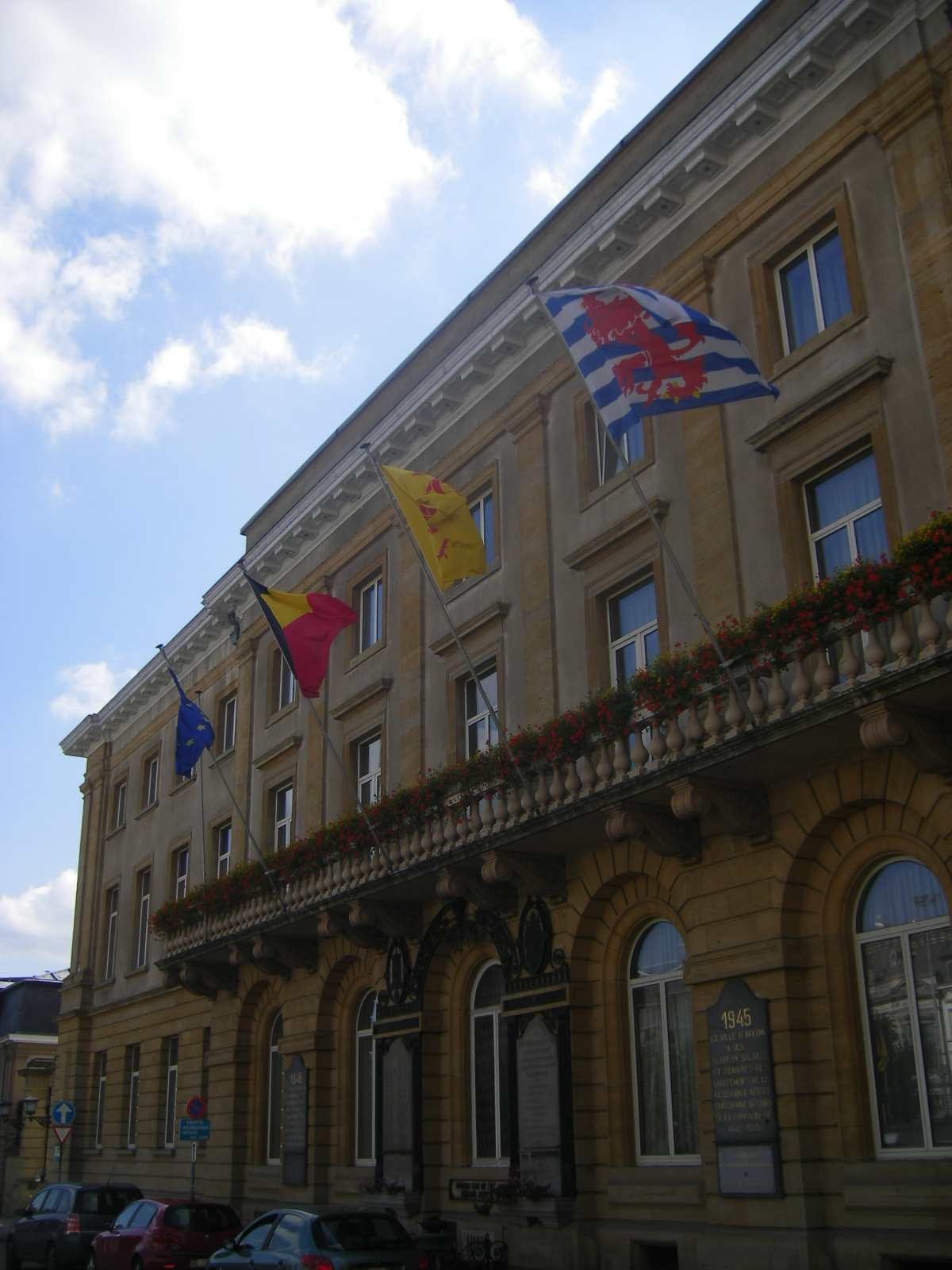 Provincial government of Luxembourg province in Arlon, Belgium.